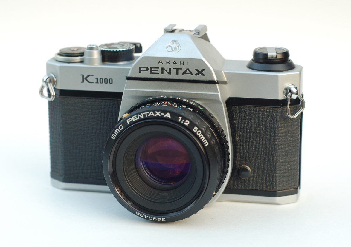 The venerable K1000, made by Asahi Kogaku, was introduced in 1976 and continued to be produced well into the 1990s. It remains a very popular camera for photography students.